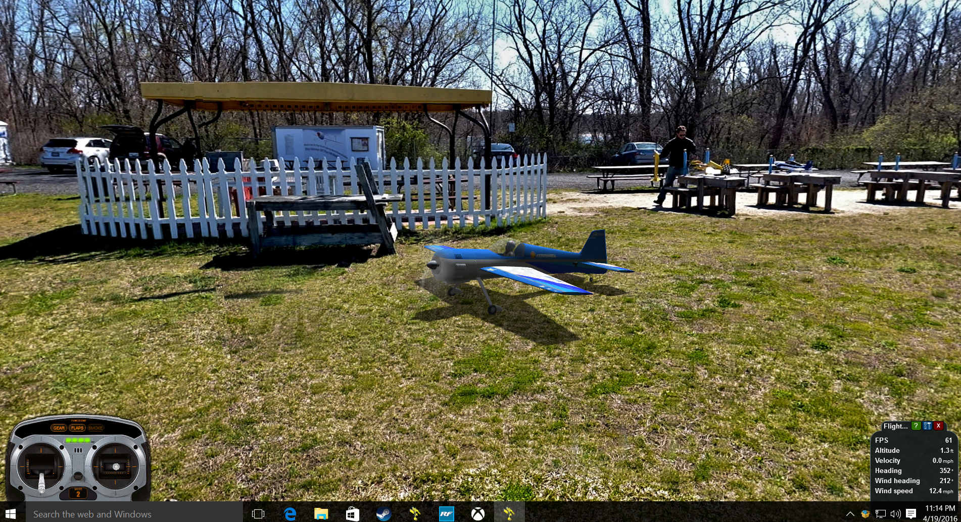 Simulated flying field of the HHAMS Aerodrome created for Phoenix RC, an RC flight simulator. This is a screenshot of the field. I created this custom flying field.